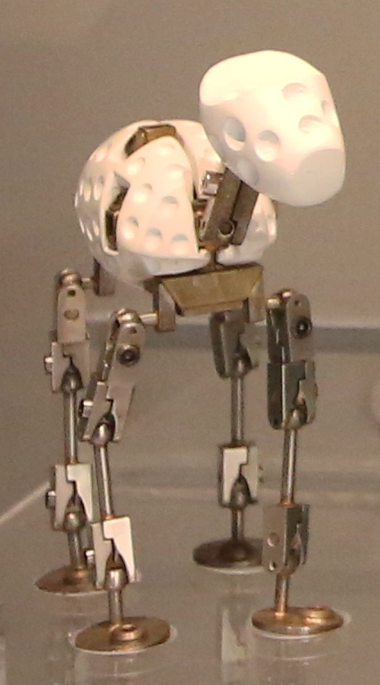 Photo of the Armature for Gromit in Wallace and gromit